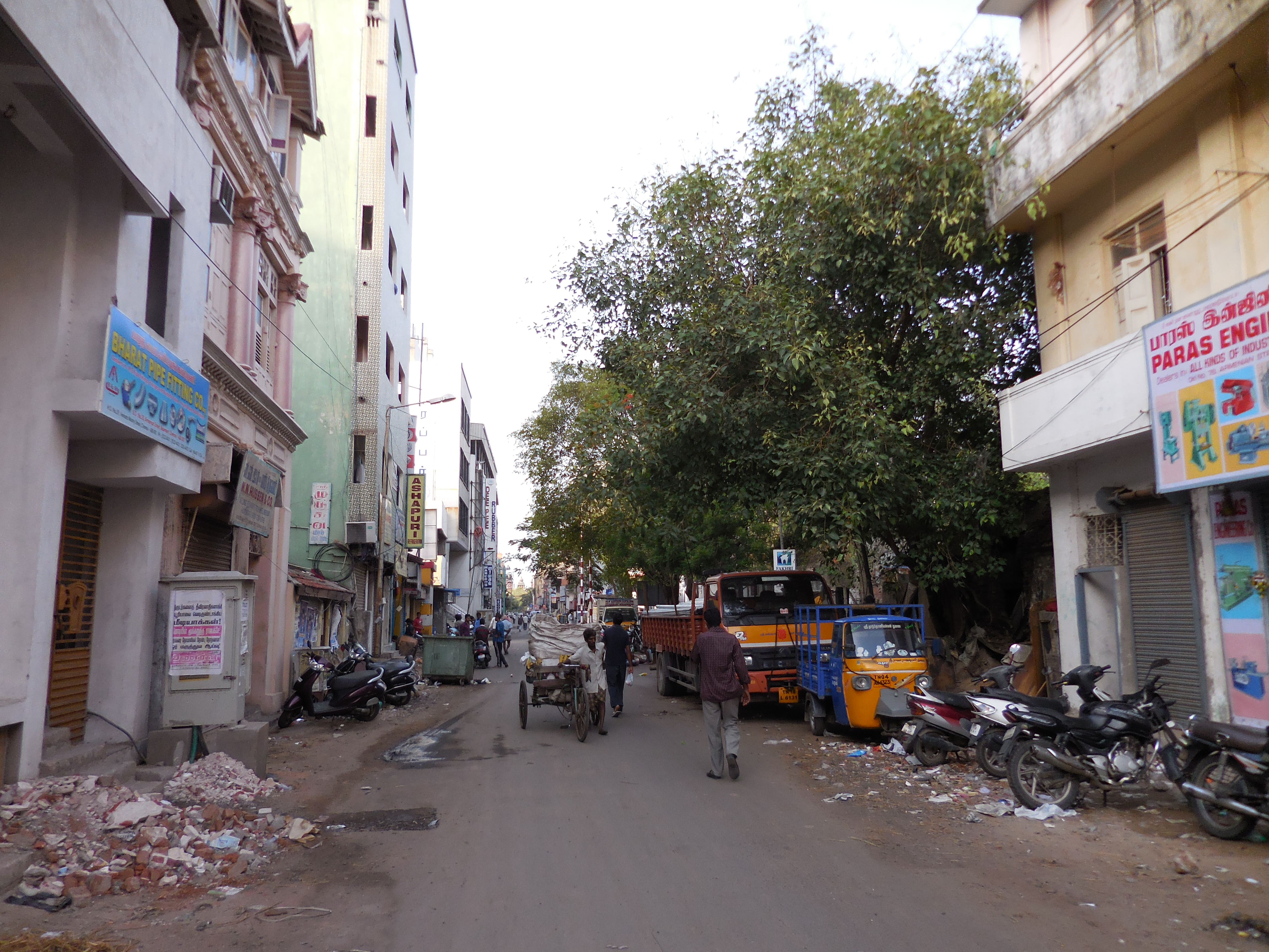 A view of Armenian Street, Chennai, taken on 21-Jun-2014 at 6:47 am